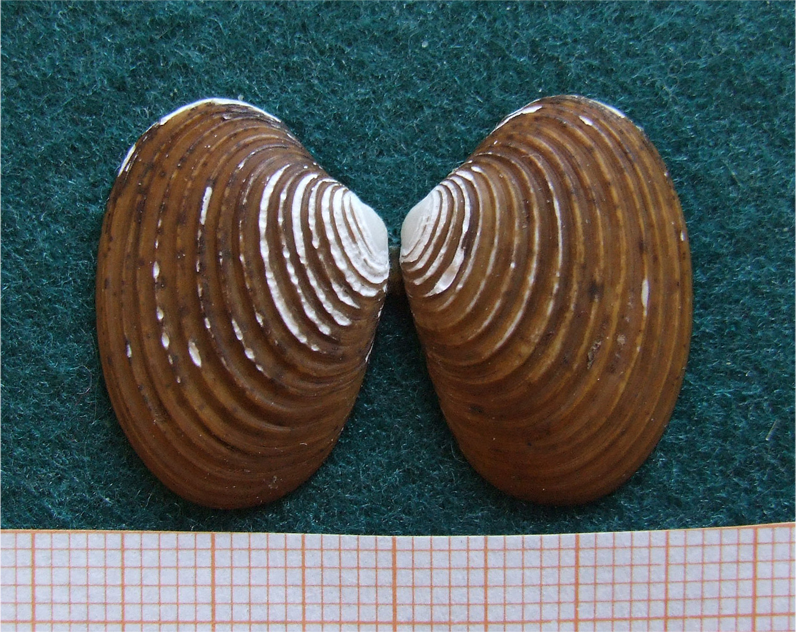 Shells of Astarte elliptica (Brown, 1827), found on the western beach of Sylt, Germany, in 1962 (Small scale units: mm).